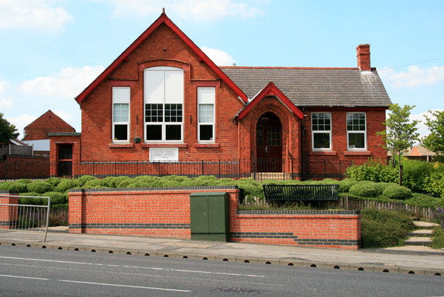 Selston Parish Council Office Built in 1901.